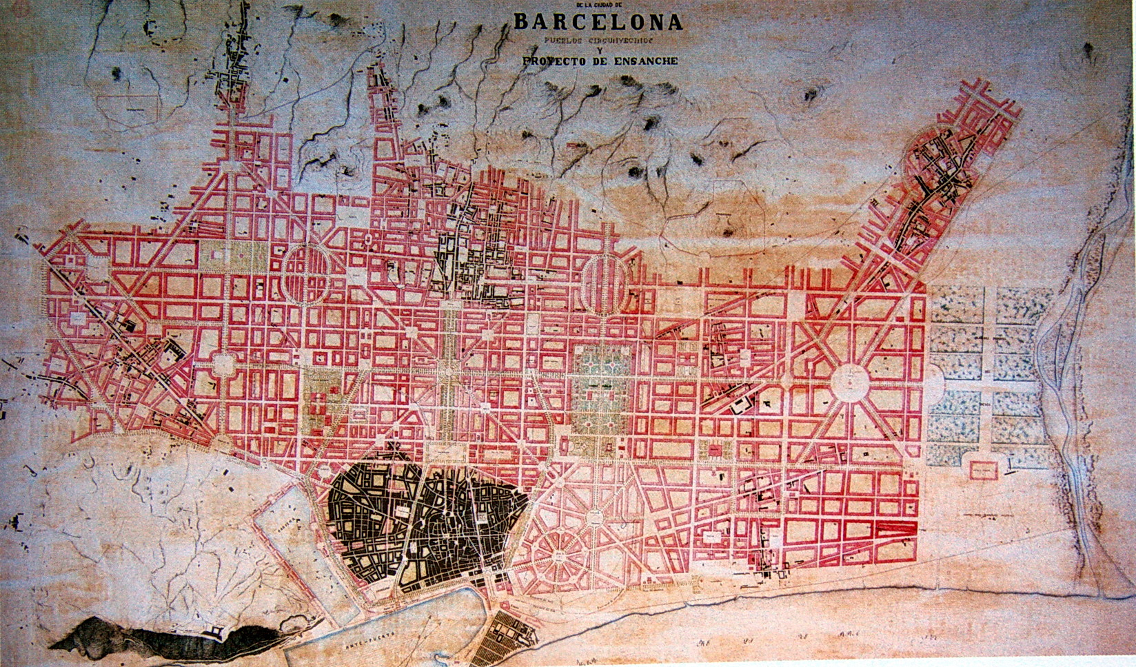 Eixample map of Barcelona. Map of Josep Fontsere's project for the "Barcelona's eixample bid" which was won by the "Plan Cerdà" 1859.